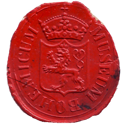 Seal to the Convenience of the National Museum Establishing in Prague 1818